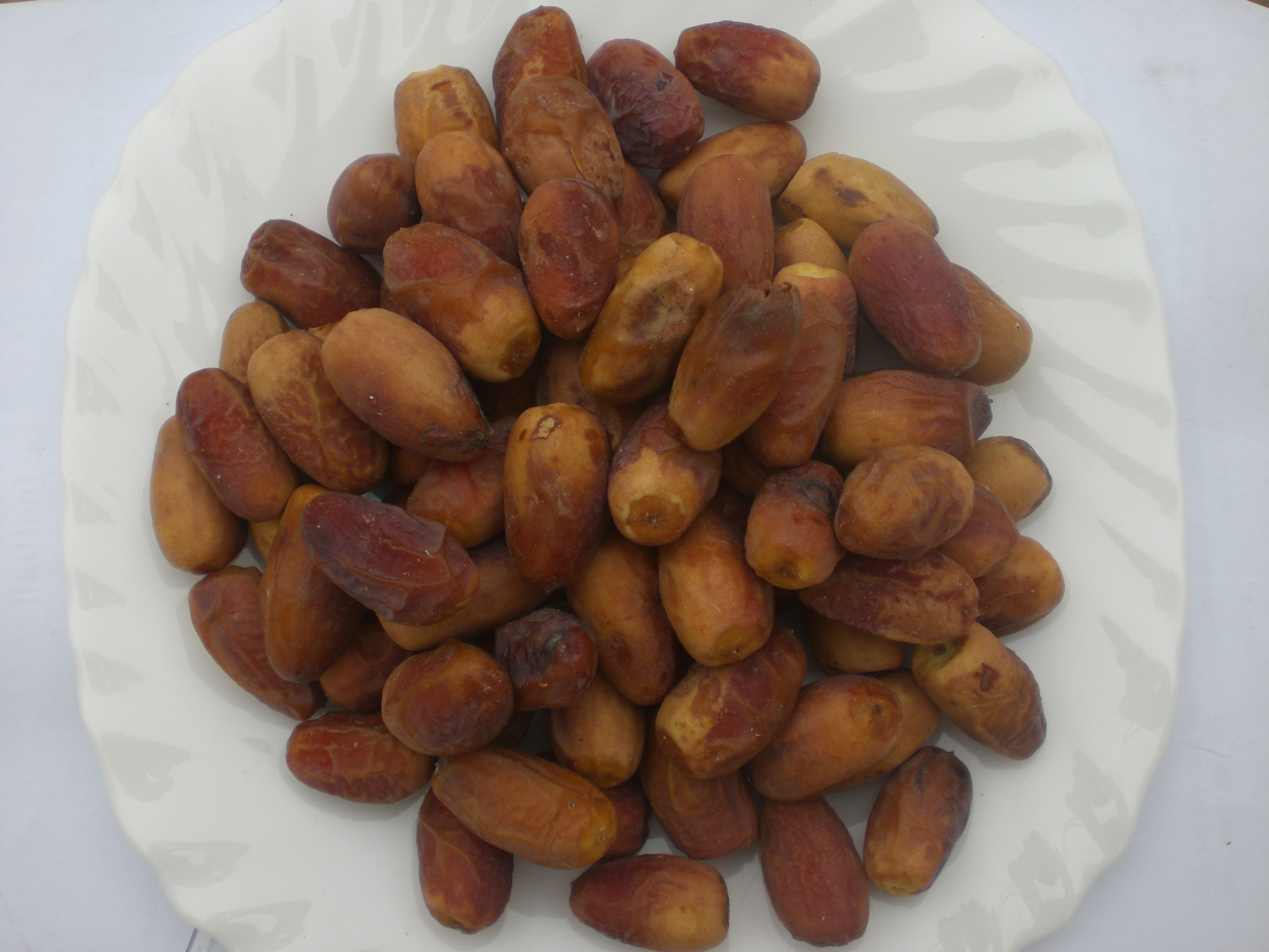 Tunisian dates called Angou